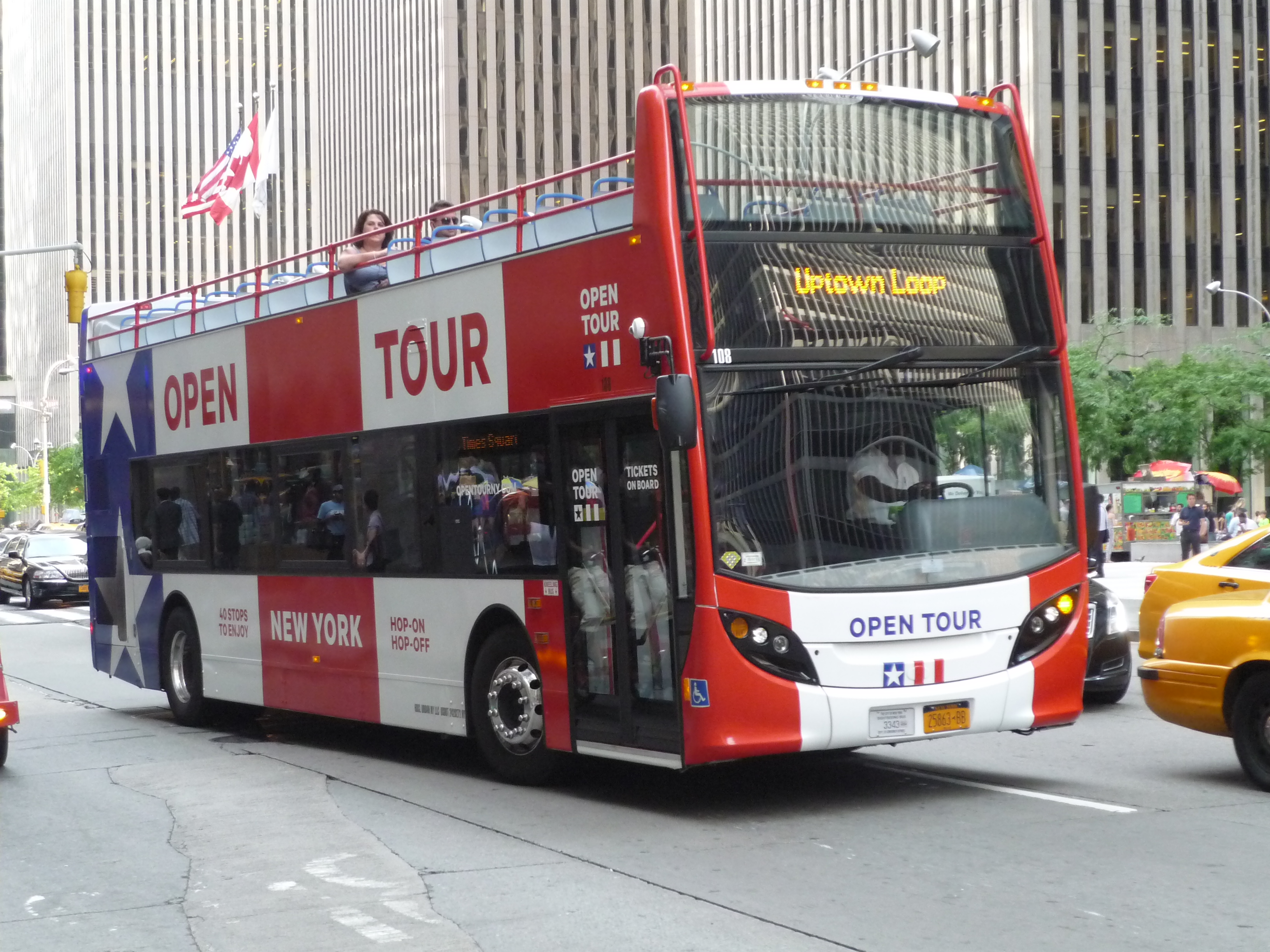 It is very rare to see European buses in North America. Open Loop New York operates 15 of these British Enviro400s for sightseeing purposes. Alexander Dennis (headquartered in Scotland) has managed to grab a small foothold in North America with these double-deckers. North American manufacturers don't build any double-deckers, so there was a solid niche available for Alexander Dennis to slide into and they've done so ably. The company also has a joint venture with North American Bus Industries that has brought the mid-sized, low-floor Enviro200 over to the states as the New Flyer MiDi.